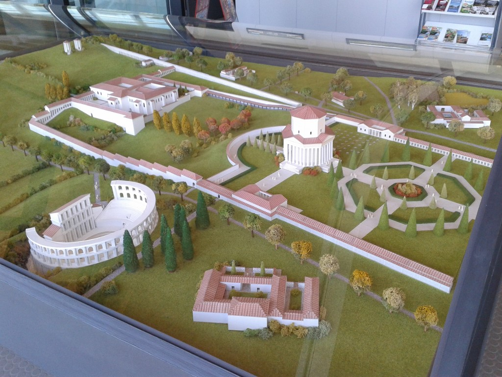 Architectural model of the pubic buildings Cassinomagus, a gallo-roman secondary city at Chassenon (Charente, S-W France), seen from the north-west. Nearest to furthest : a villa, amphitheatre, temple of Montélu (also called "temple des Chenevières") with its 49 "wells" on its south side, the huge roman baths, aqueduc following the south wall, some dwelling areas beyond the walls on the south side.